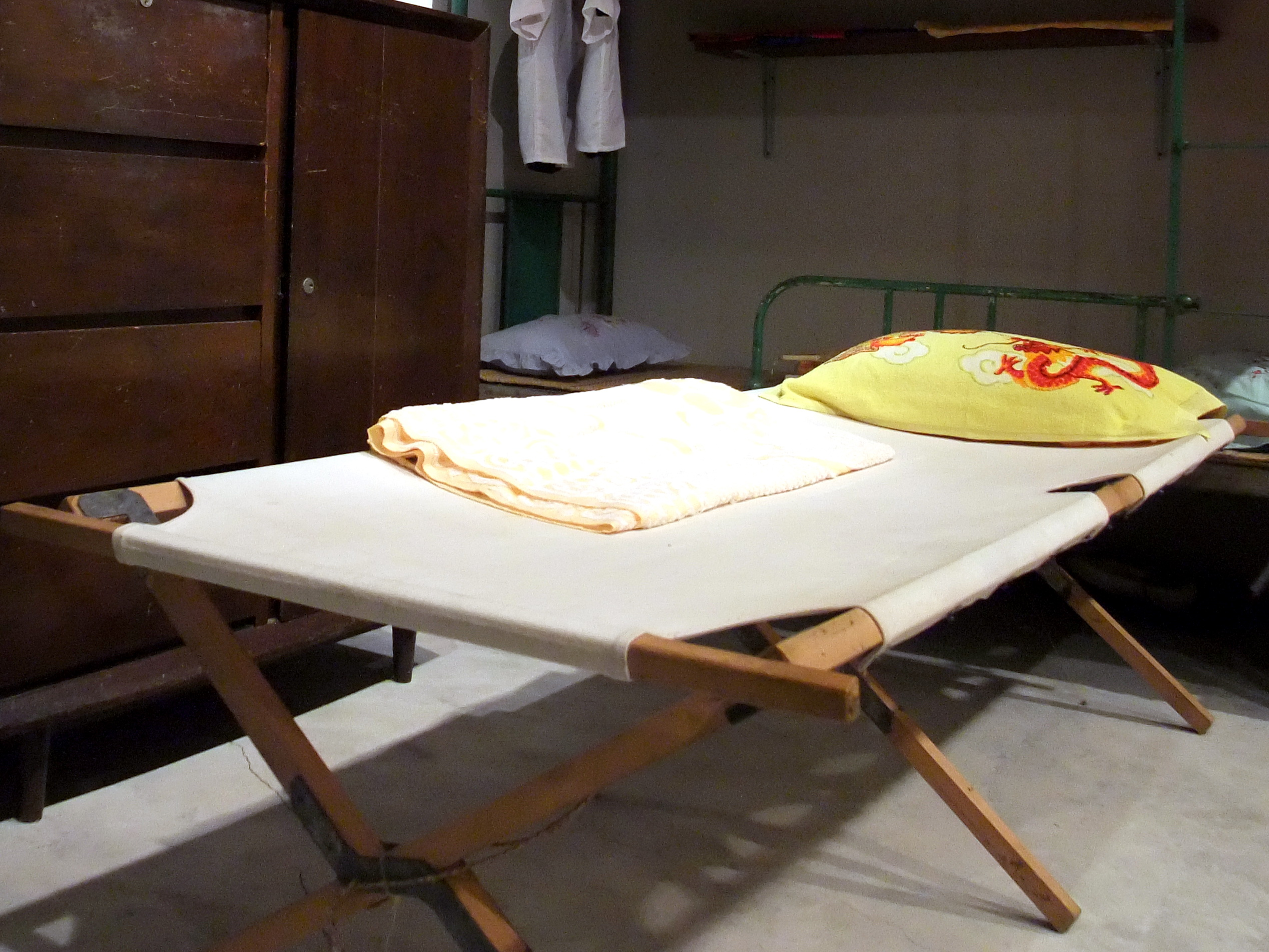 A canvas bed displayed at the Hong Kong Museum of History